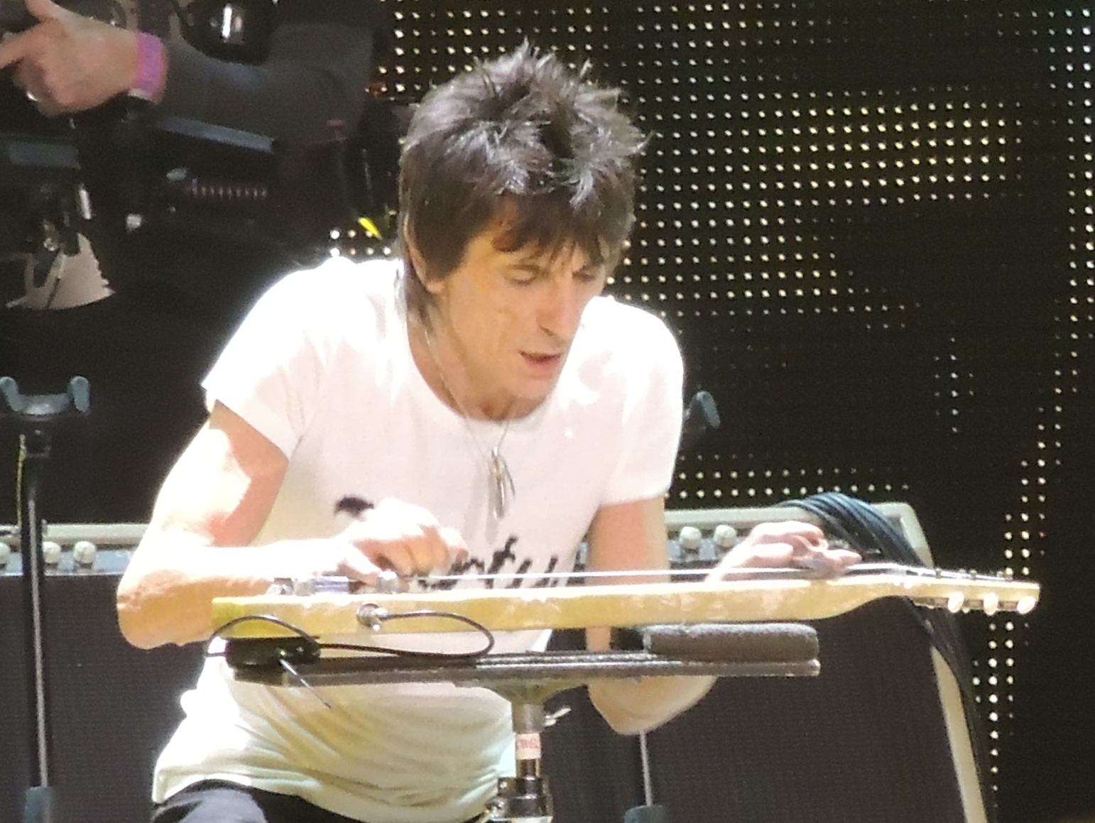 Ronnie Wood at the Prudential Center on 2012-12-13